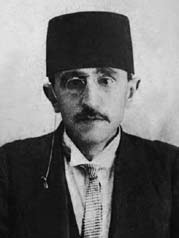 Koçzade Yusuf Ziya Bey (Yusuf Ziya [Koçoğlu]) , Kurdî: Koçzade Ûsiv Ziya Beg